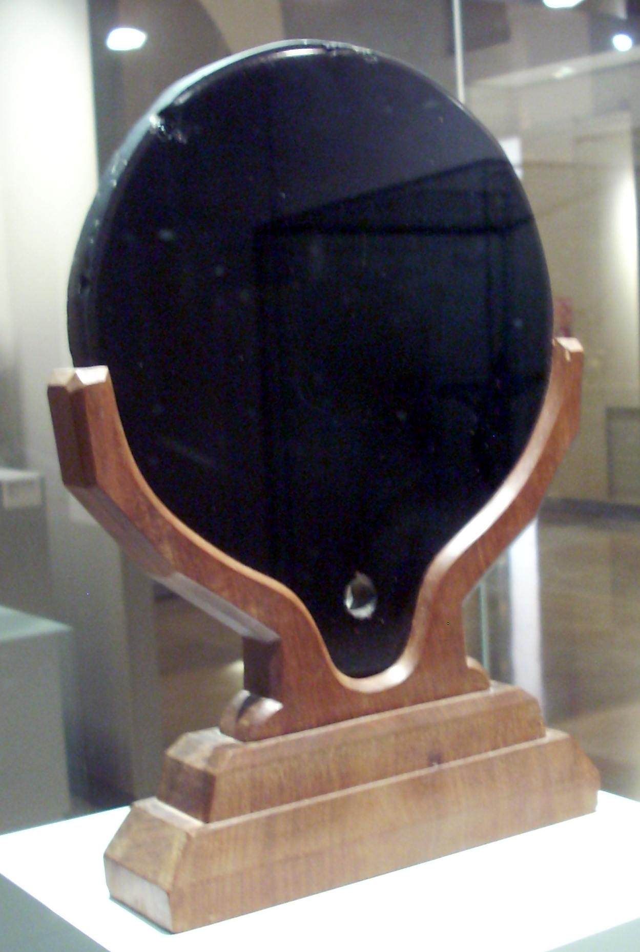 Aztec mirror carved from obsidian, on a modern wooden base. Museum of the Americas, Madrid.